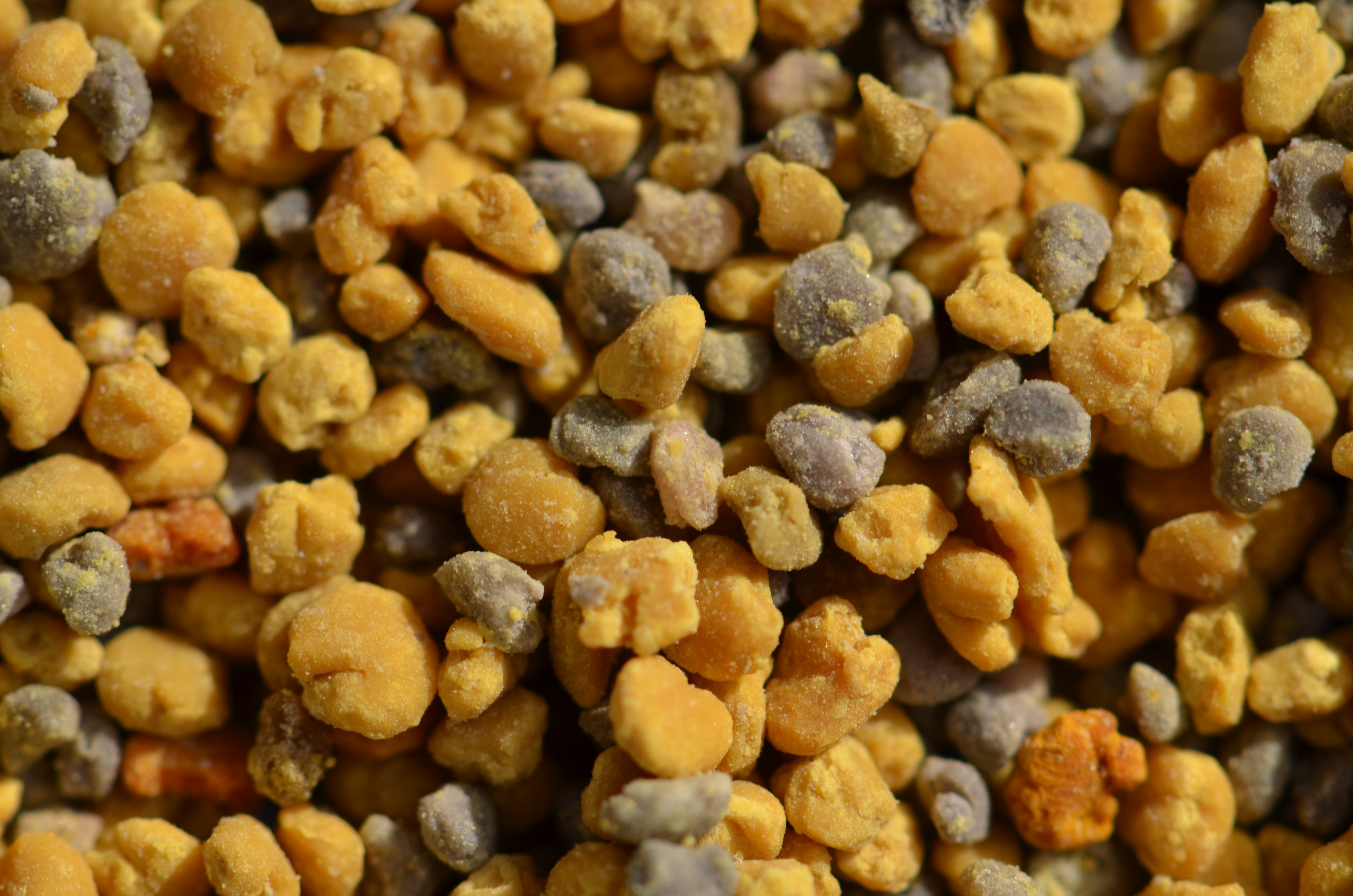 Frozen balls of pollen